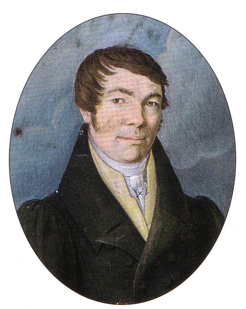 Painting of gardener August Dieskau, Althaldensleben (1805-1889)